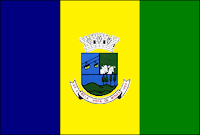 Flags of the city of Bela Vista de Minas, Minas Gerais , Brazil.